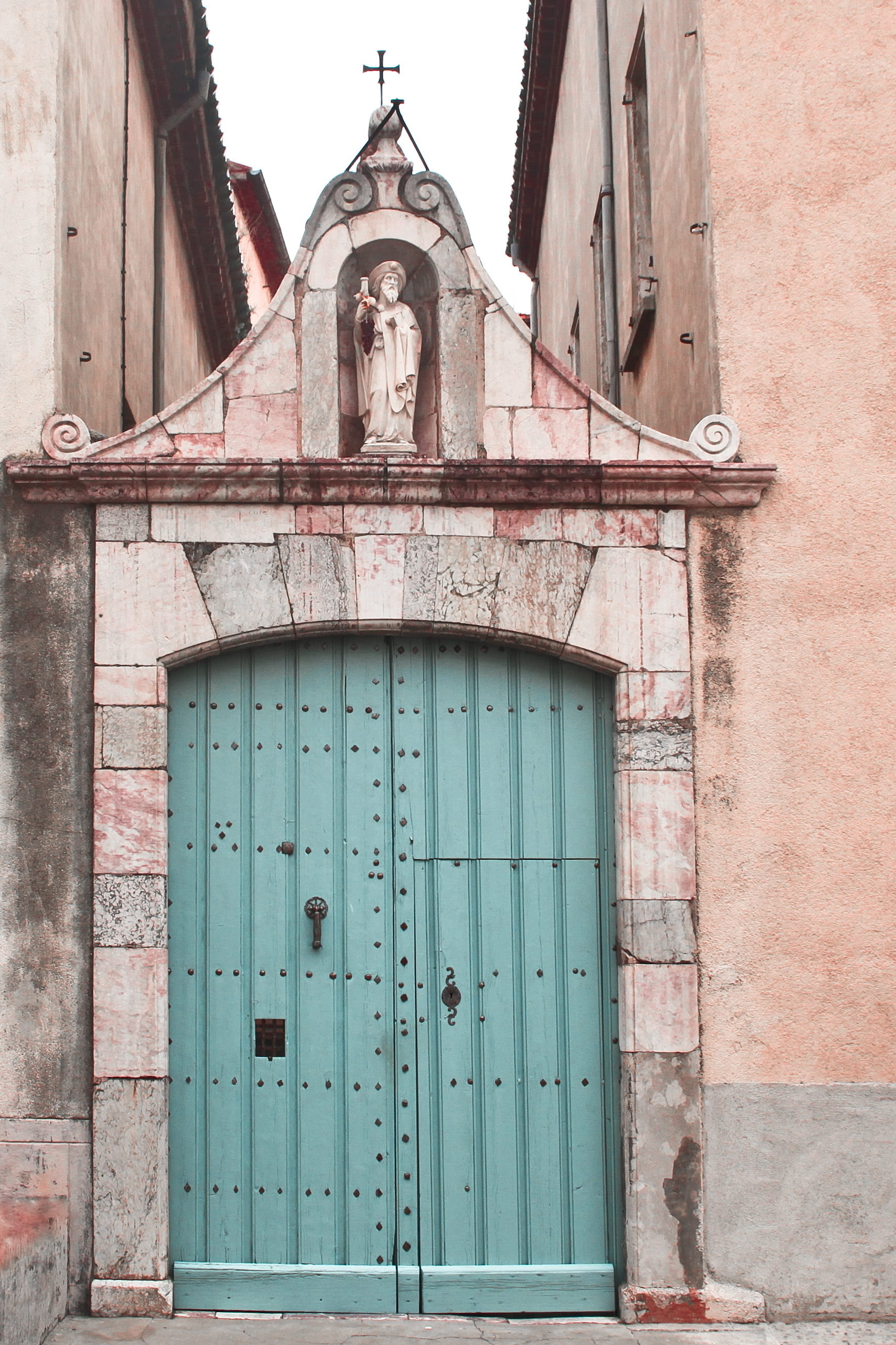 West wing gate, St-Jacques hospice, Ille-sur-Têt, France